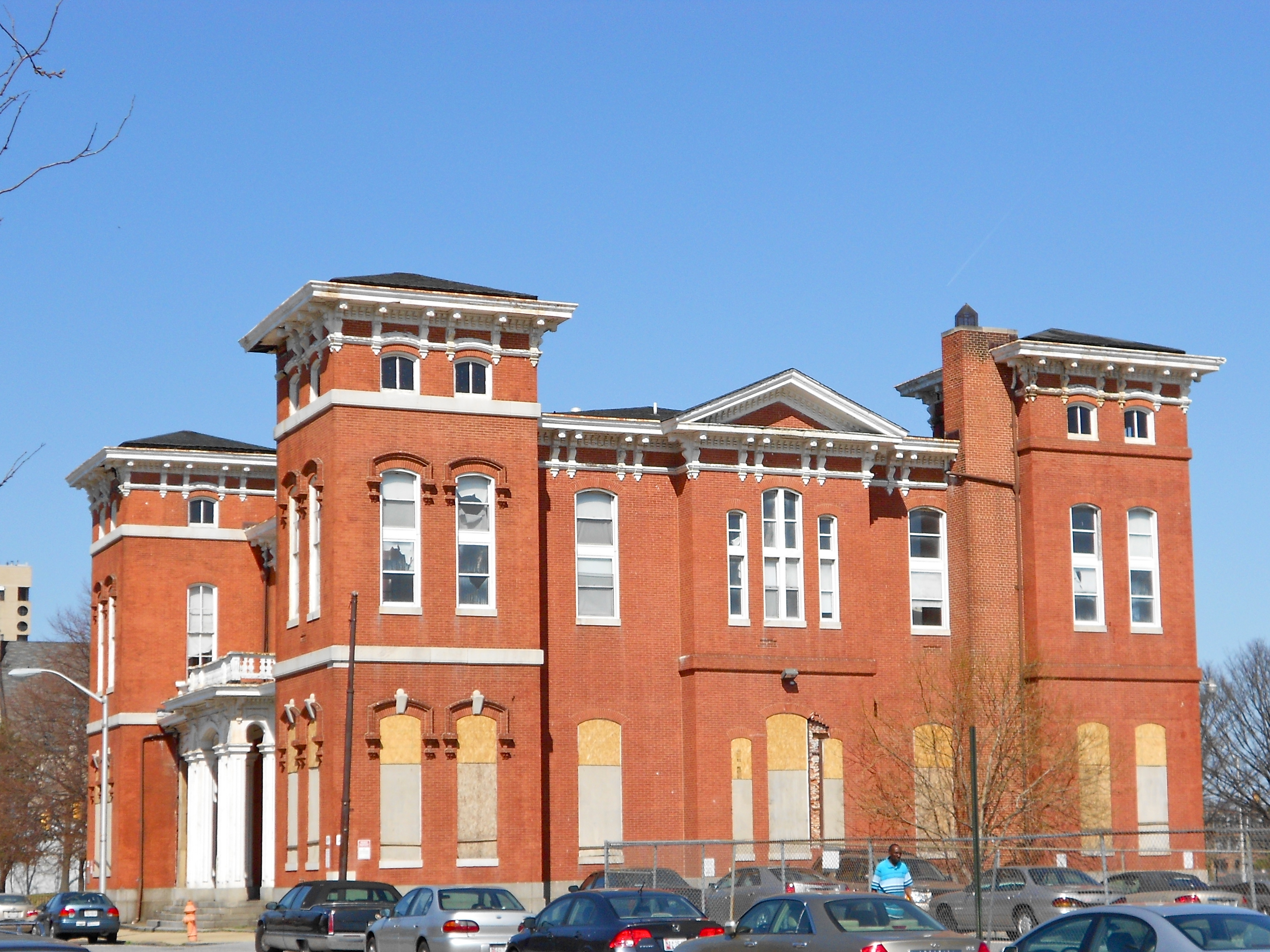 Eastern Female High School on the NRHP since September 10, 1971, at 249 Aisquith St. in southeast Baltimore, Maryland. Built 1869.